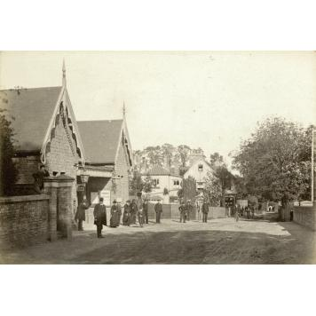 Winchmore Hill Station